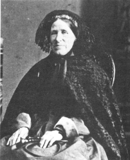 Francis Tree Mitchell, wife of Rev. W.Mitchell